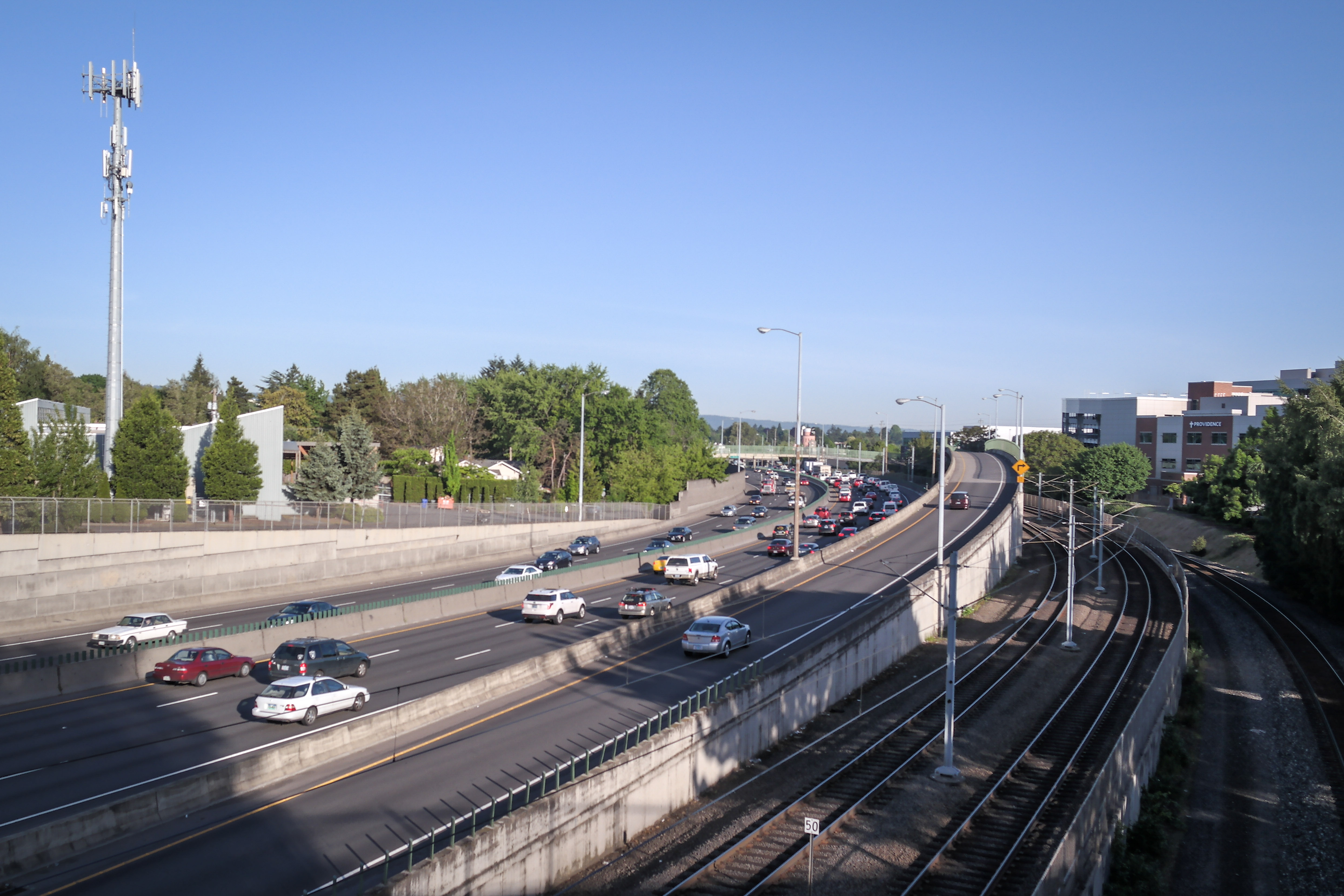 A view of the MAX Light Rail tracks next to Exit 2 of the Banfield Expressway in Portland's Hollywood District, facing west